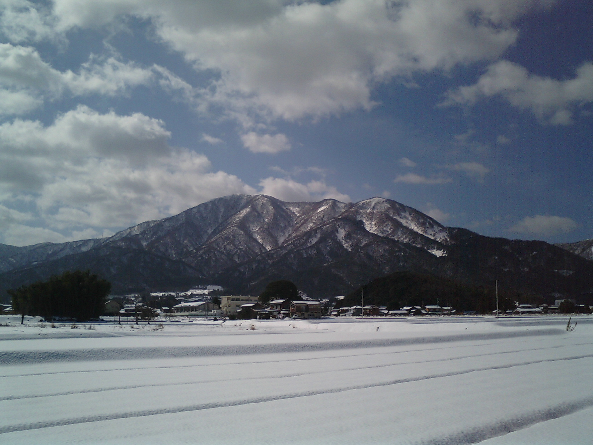 Mount Nosaka seen from the northeast.